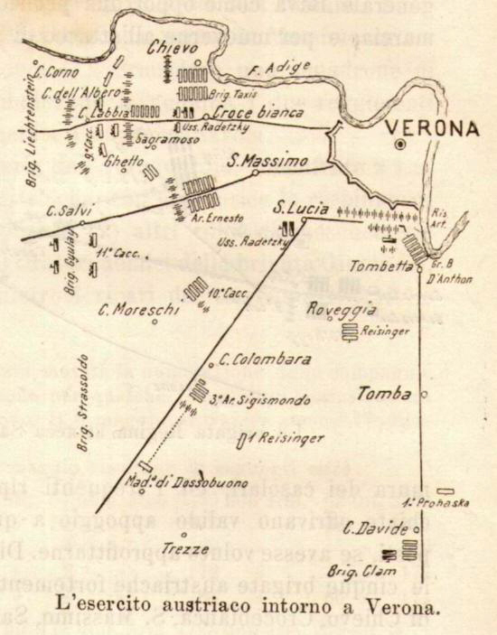 Map of Battle of Santa Lucia (1848)